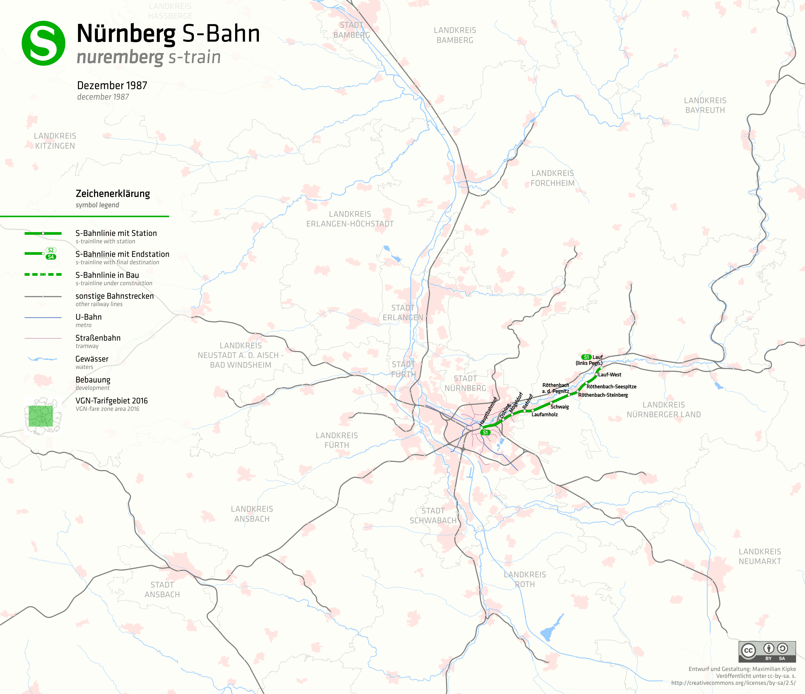 network of s-bahn nuremberg in 1987